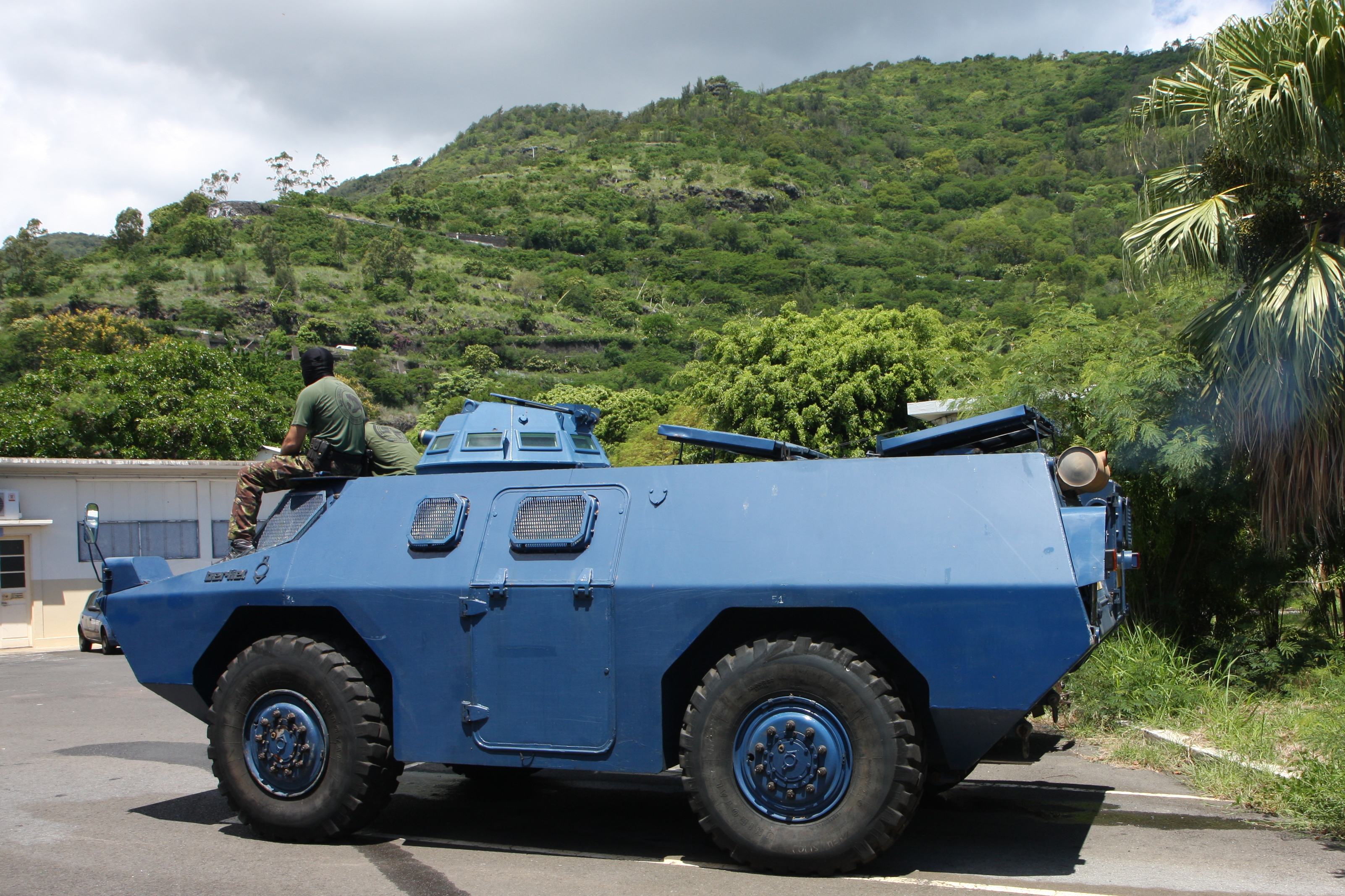 French Gendarmerie VBRG armored vehicle